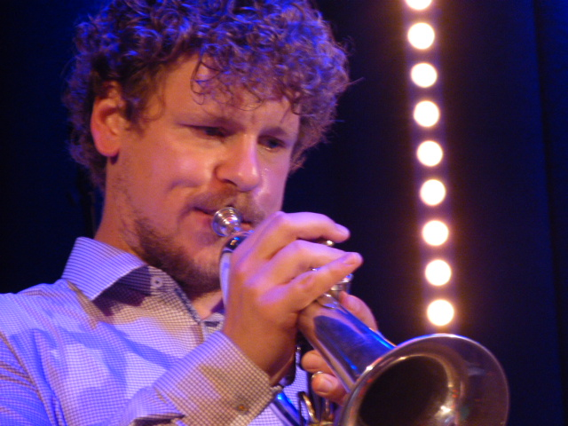 Bastian Stein (tp) in concert with Martin Gasser (s), Reza Askari (b), and Leif Berger (dr) at ARTheater, Cologne, Germany, July 21st, 2015